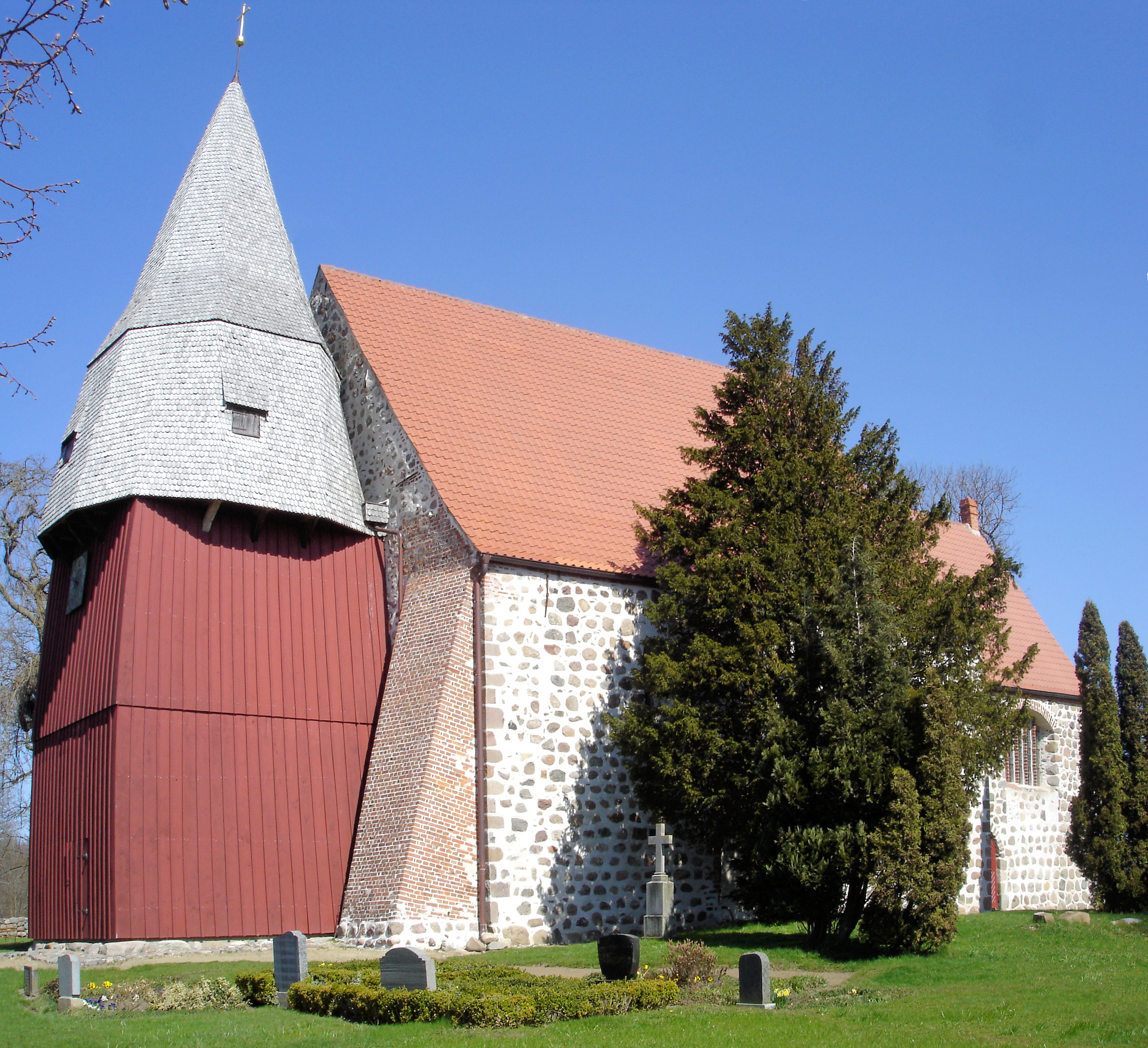 Church Tribohm, Mecklenburg-Vorpommern, Germany